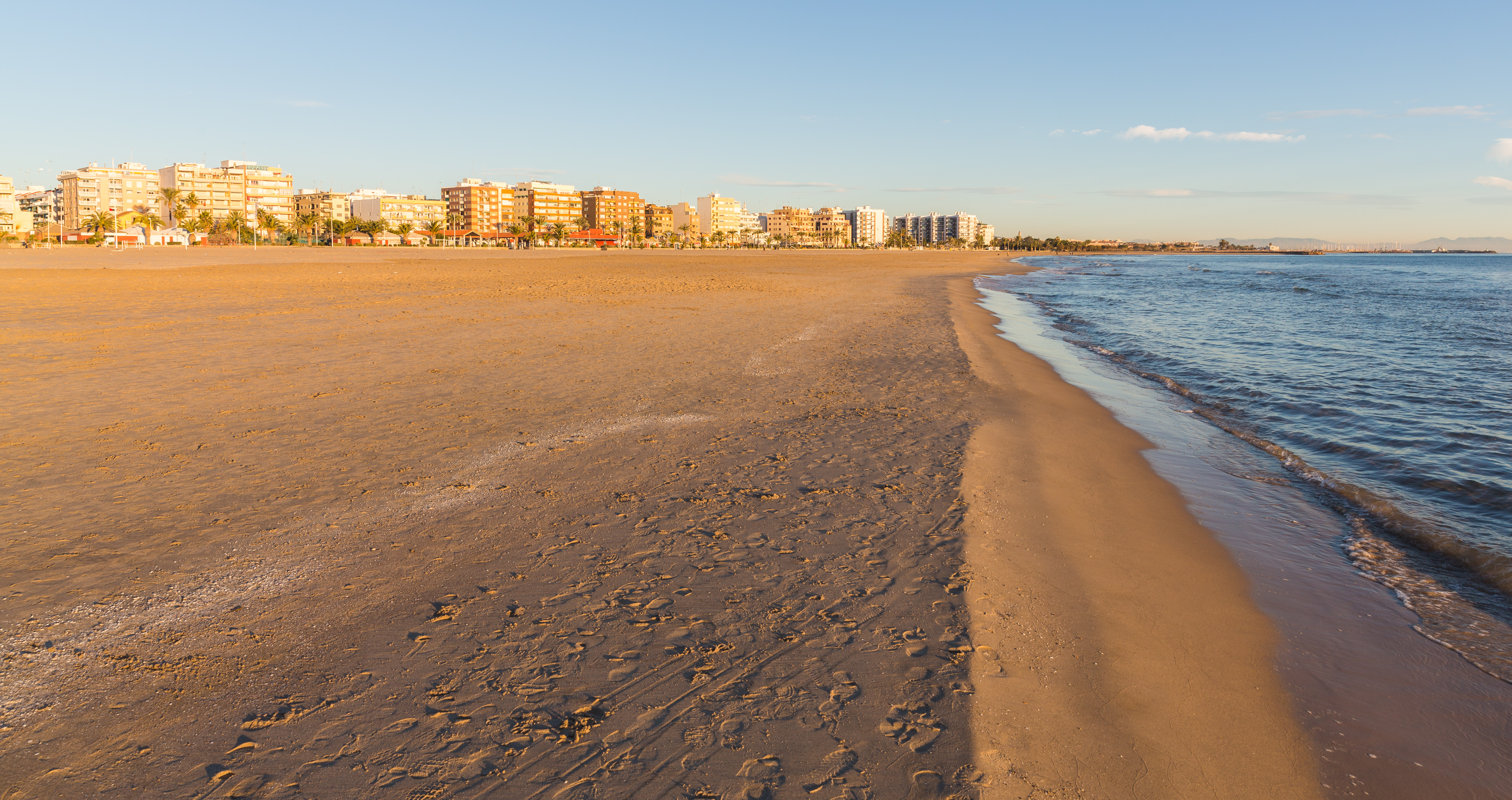 Beach of Port of Sagunto, España